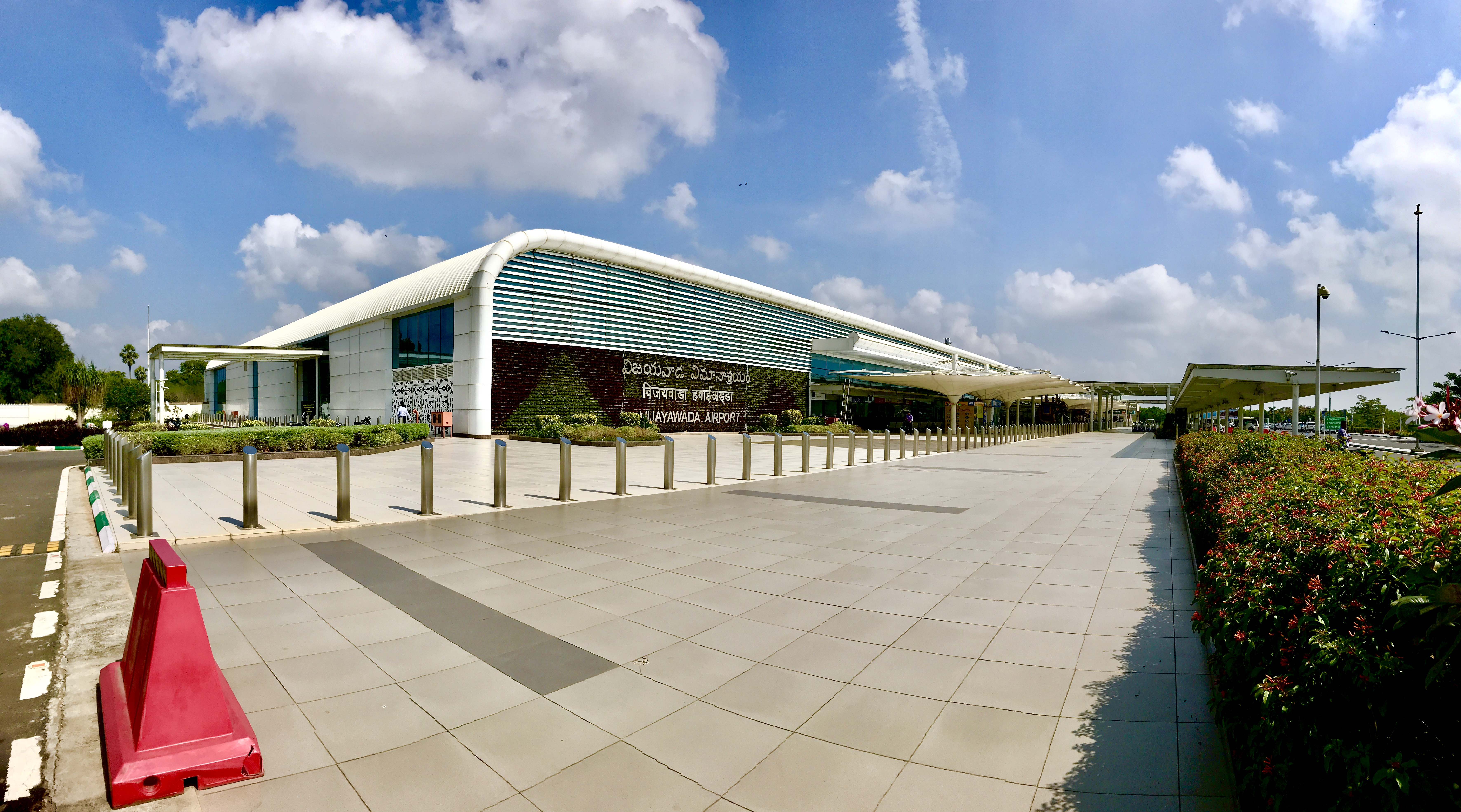 Vijayawada Airport as on November 2018